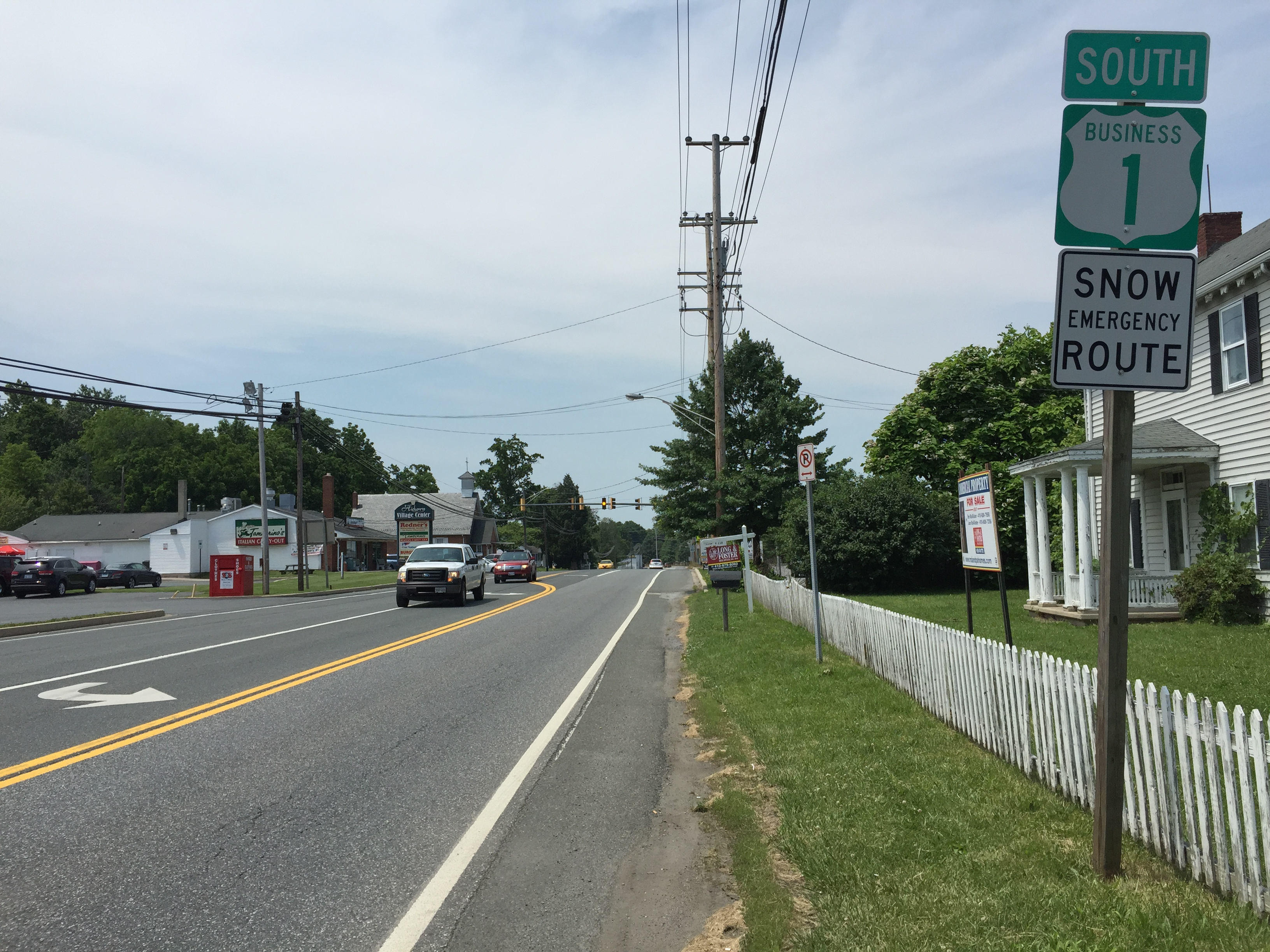 View south along U.S. Route 1 Business (Conowingo Road) at Maryland State Route 543 (Ady Road) in Hickory, Harford County, Maryland